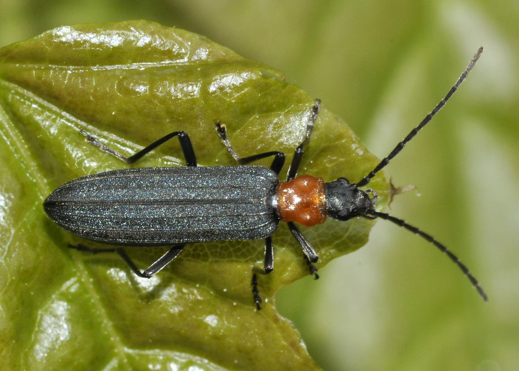 Ischnomera sanguinicollis (Fabricius, 1787). Germany: Niedersachsen, Harz mountains, Sieber near Herzberg am Harz, 350 m.